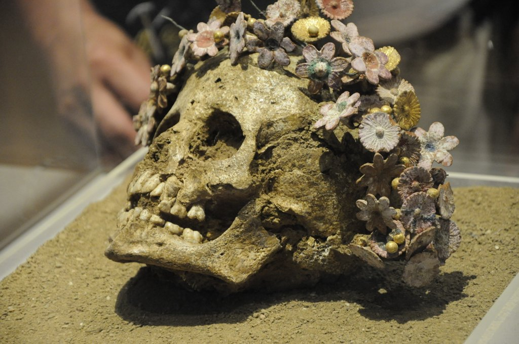 Girl buried with a crown of ceramic flowers. Patras, 300-400 B.C. From the Museum of Patras.